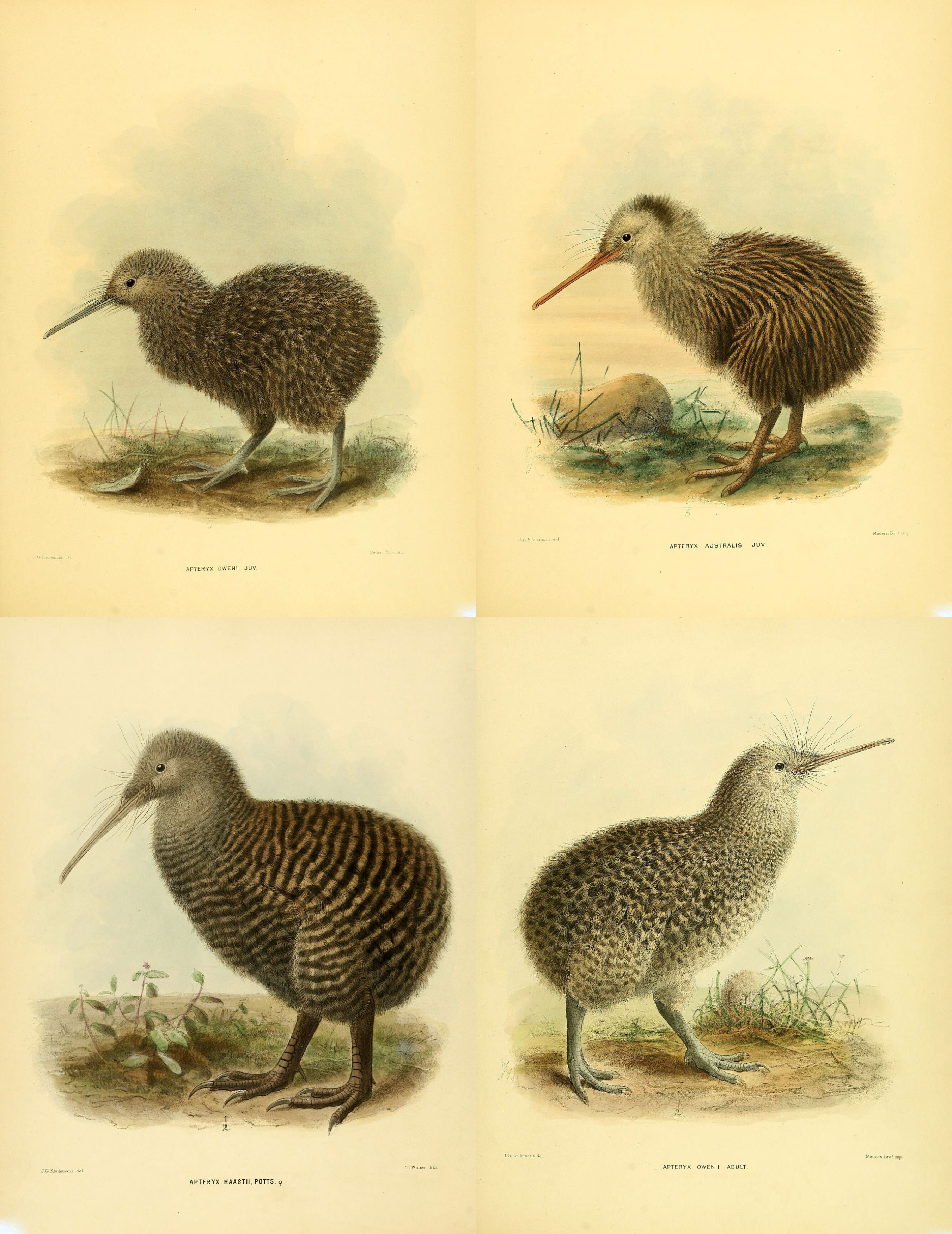 Mosaic of kiwi illustrations from the book Ornithological miscellany (1876)